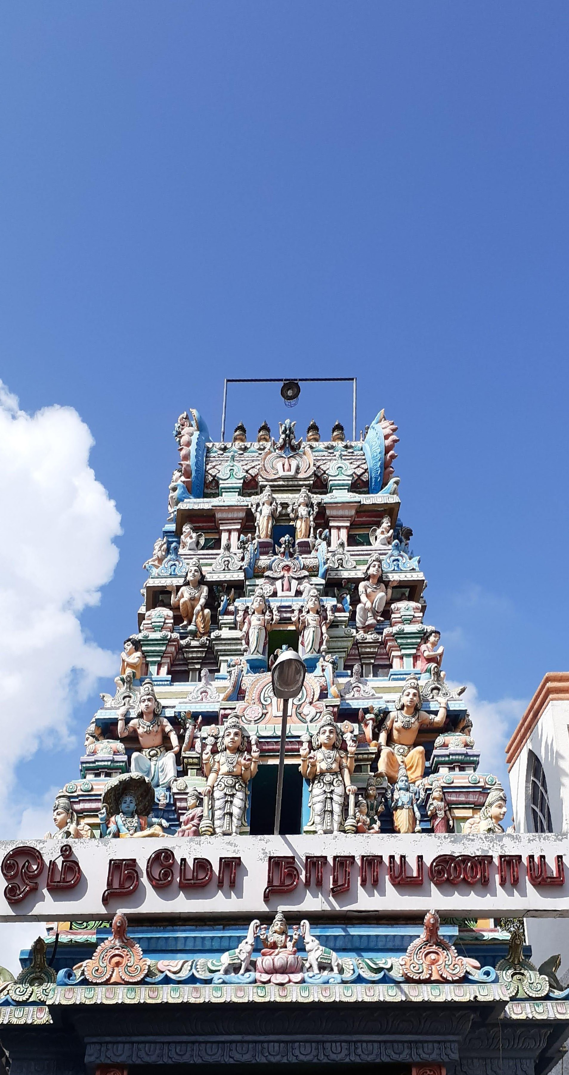 Famous Shri Venkatesa Perumal temple, Perambur, Chennai, Tamil Nadu, India.